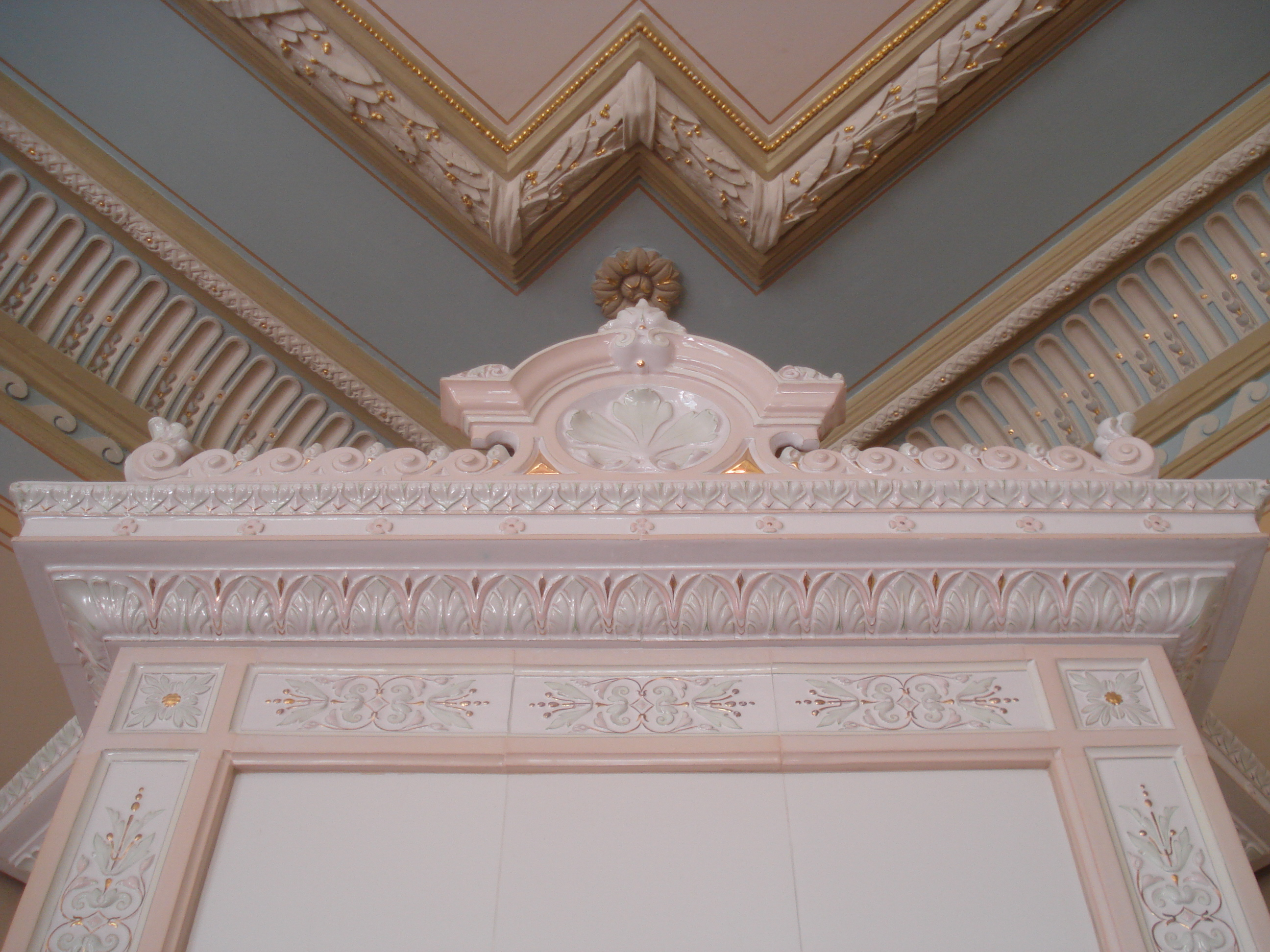 tiled stove in the palace of the Vileišis family (now Institute of Lithuanian Literature and Folklore) on the second floor. Detail